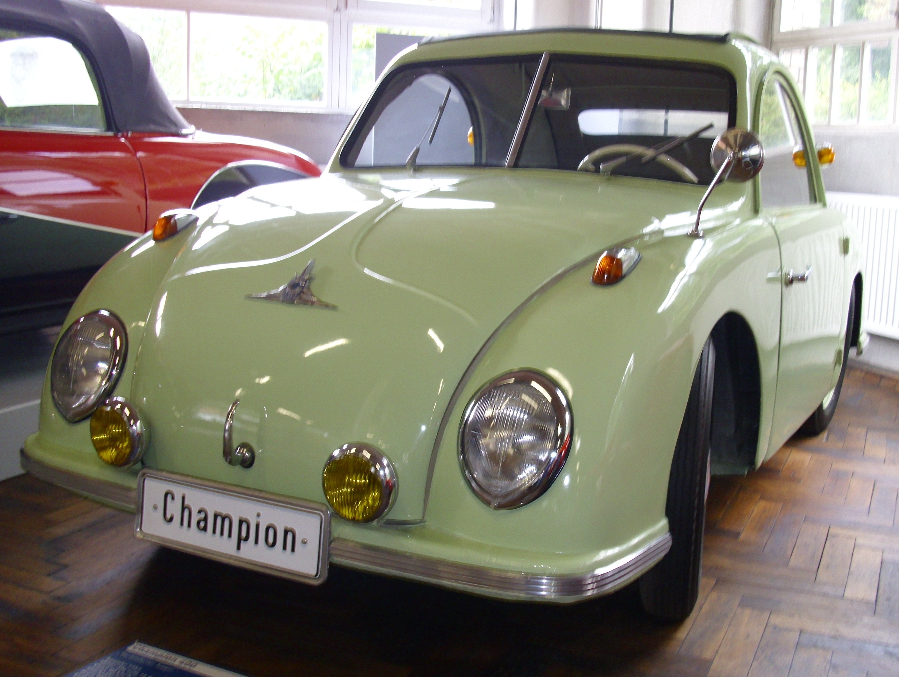 Champion 400 H 1953